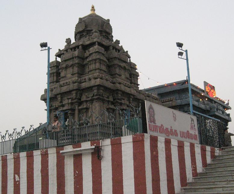 Hindu temple